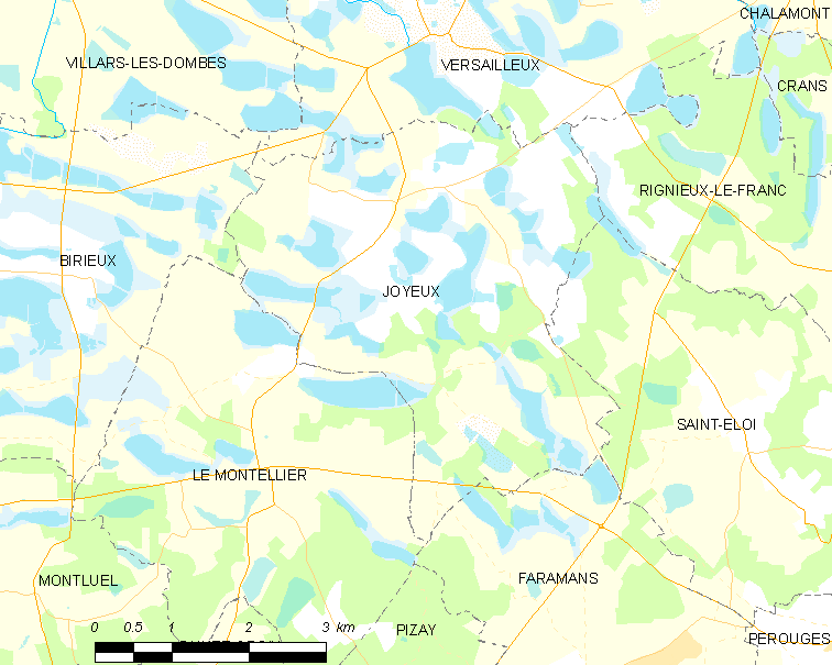 Map of French commune: Joyeux Map commune FR insee code 01198.png